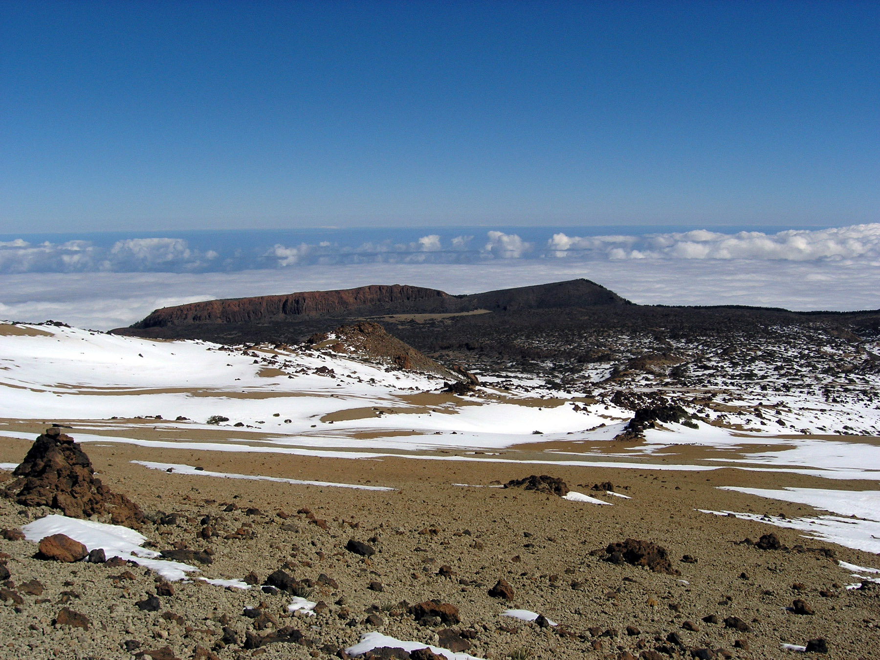 Landscape, Montana Blanca, Teide National Park, Tenerife.